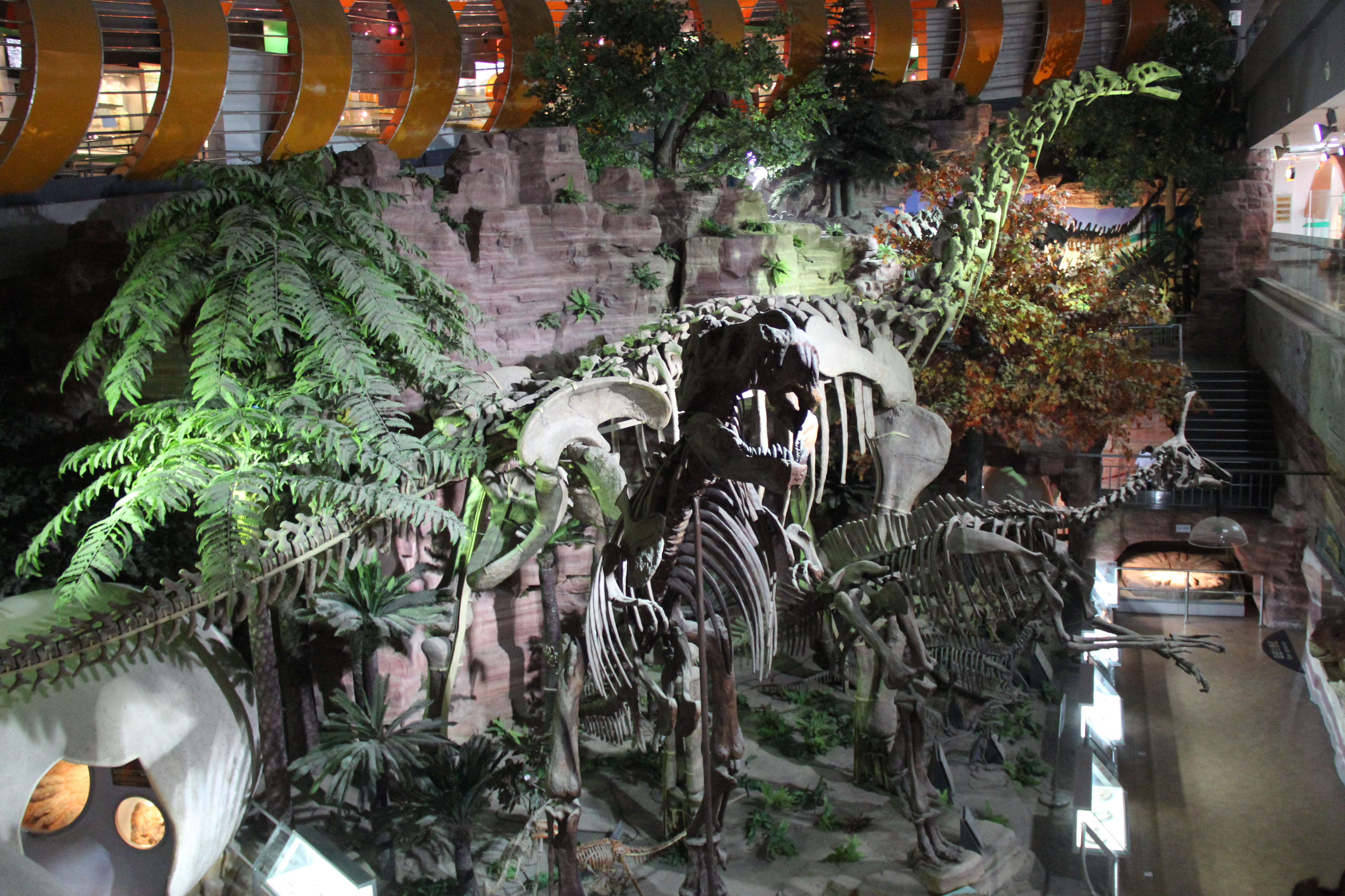 Henan Geological Museum, Zhengzhou, China. Complete indexed photo collection at .